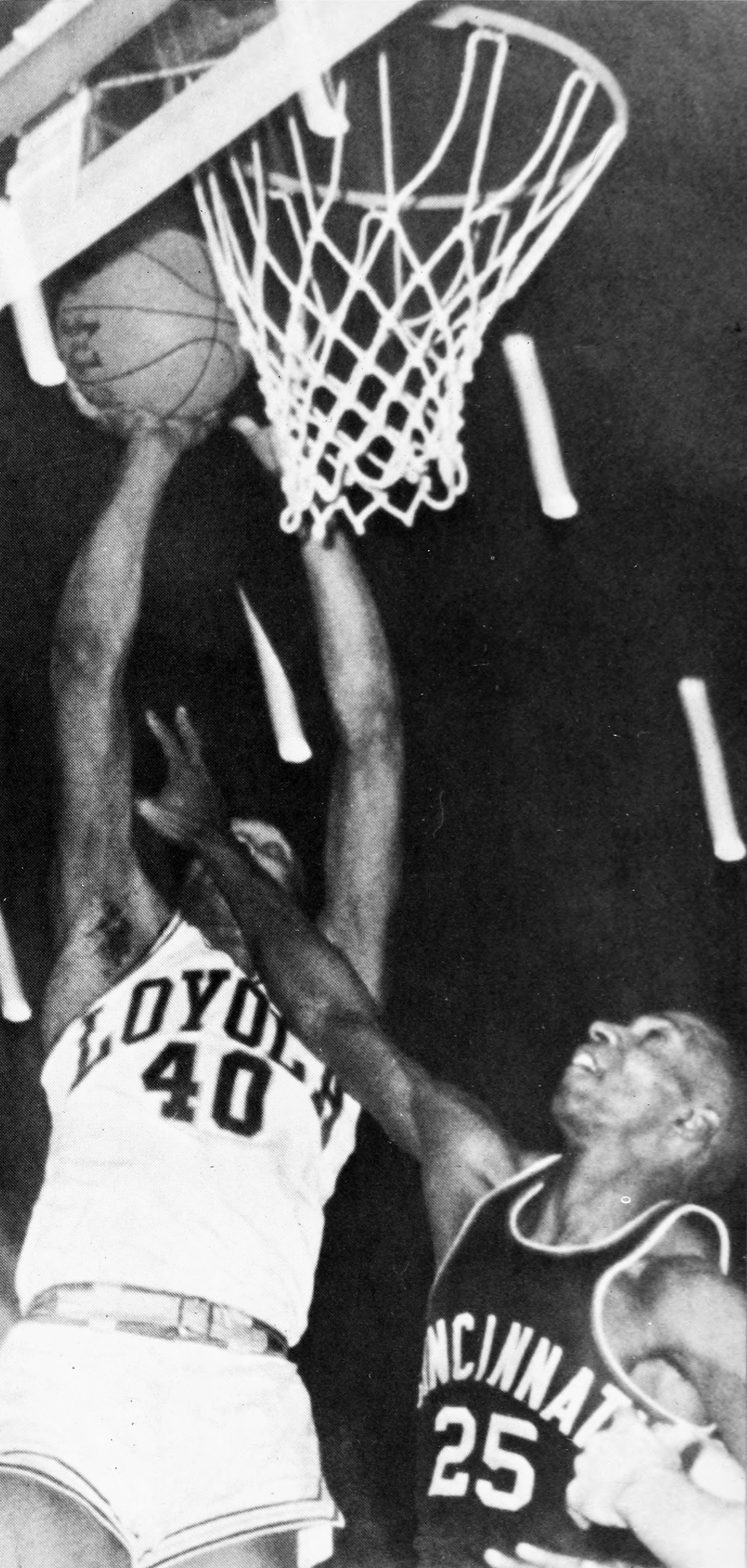 An scanned image of a page from the 1963 edition of the Loyolan, the yearbook of Loyola University Chicago